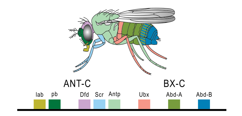 Eight Hox genes of D. melanogaster (fruitfly).